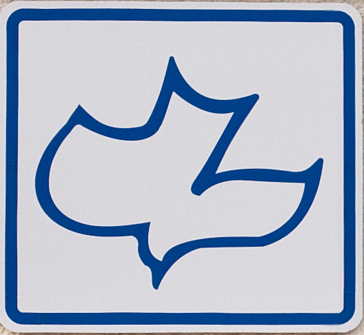 The Calvary Chapel Logo - the dove, representing the Holy Spirit